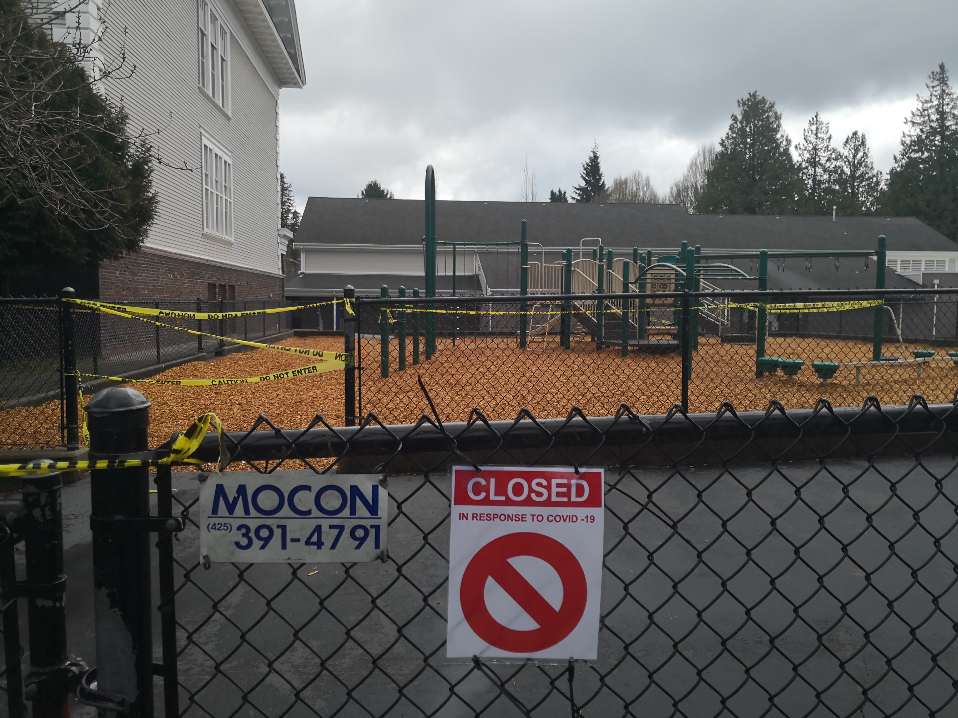 The school is shut down and yellow tape is placed around the playground to keep people from using it.